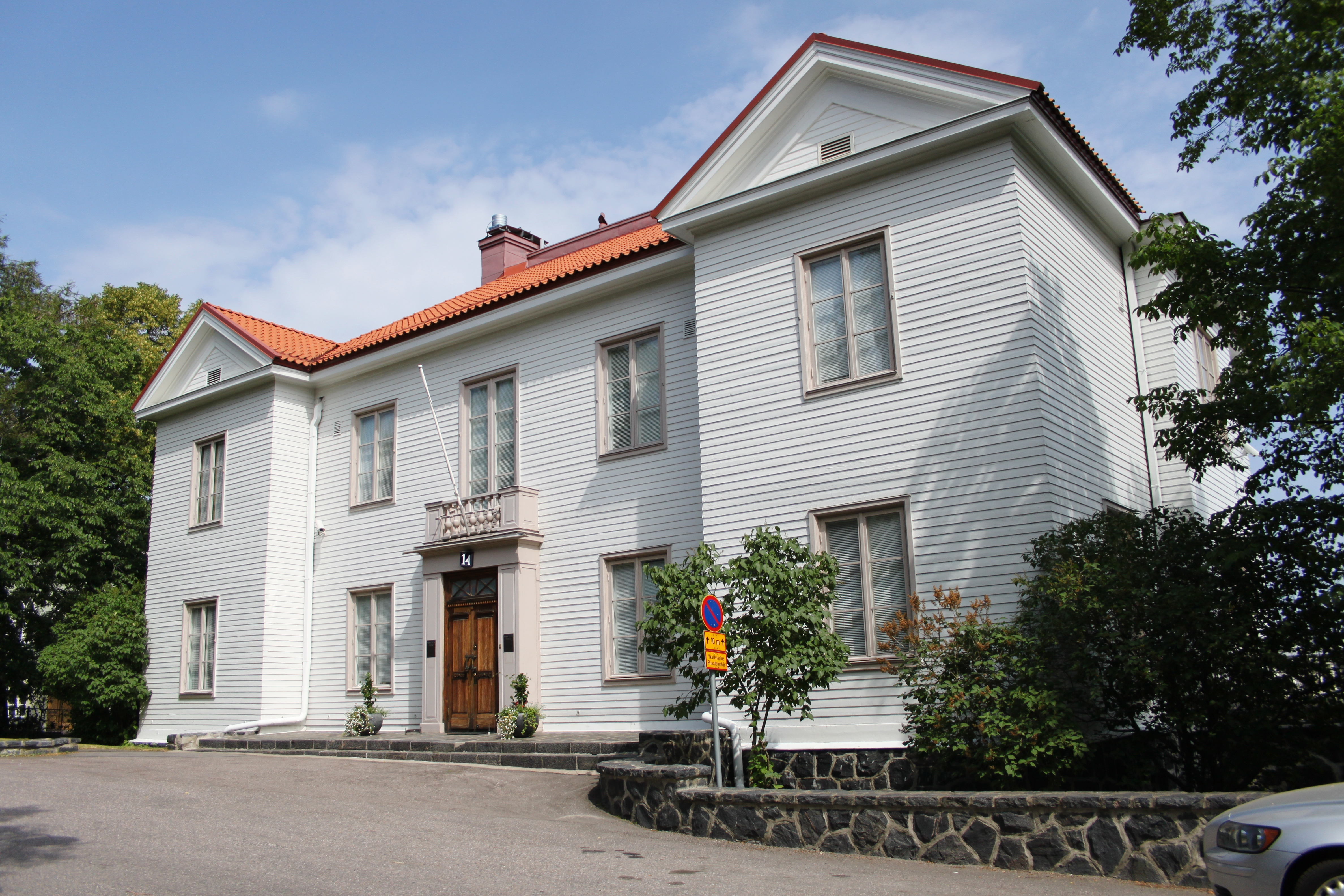 Mannerheim Museum, Kalliolinnantie, Helsinki. Built 1874.